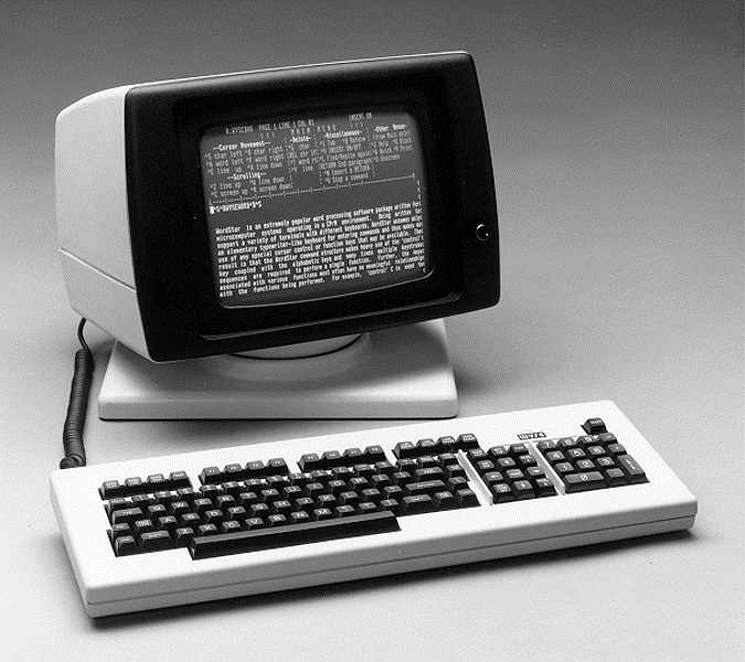 Wyse’s first product the Wyse 100 running WordStar